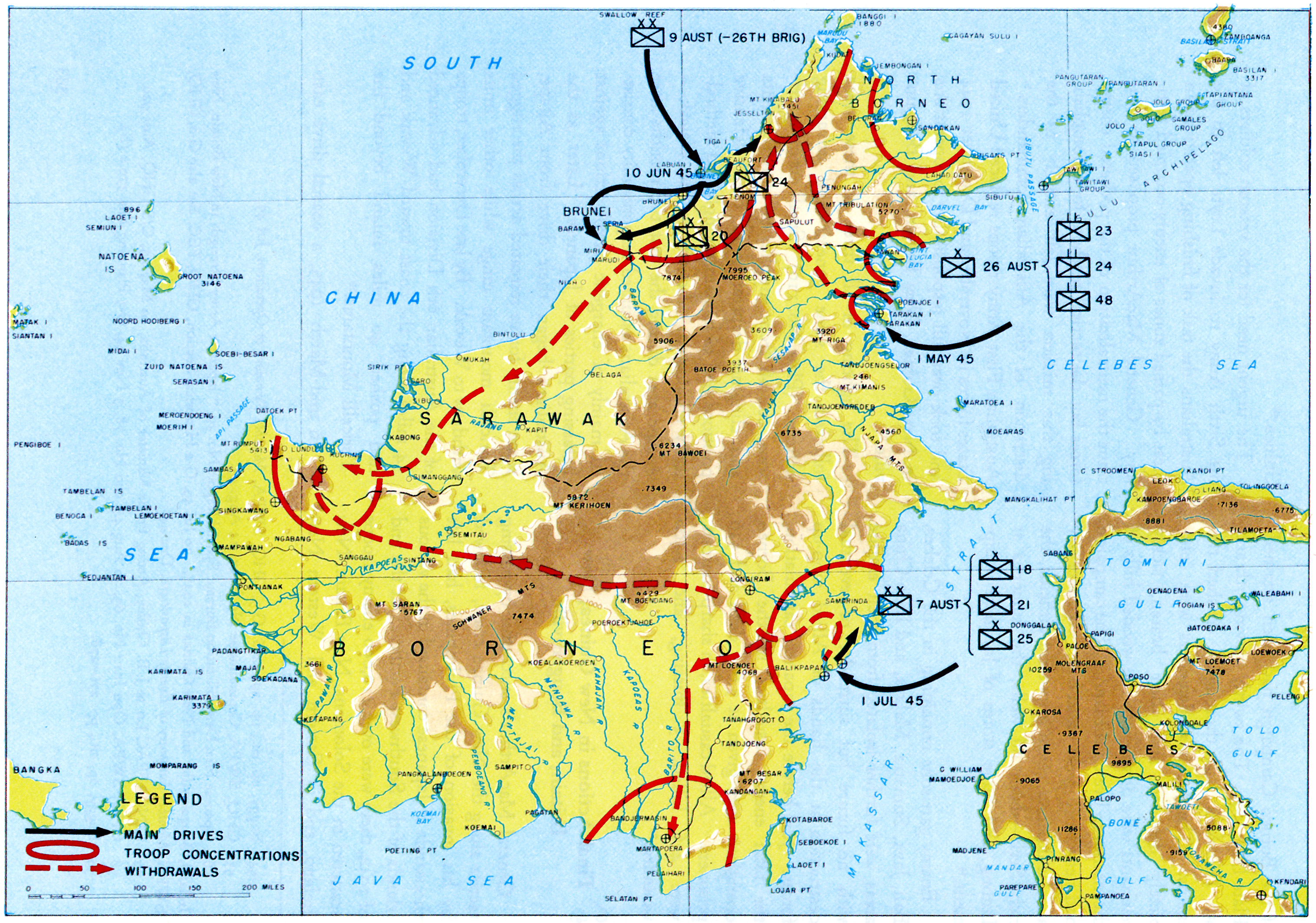 Plate No. 109 The Borneo Operations, May-July 1945